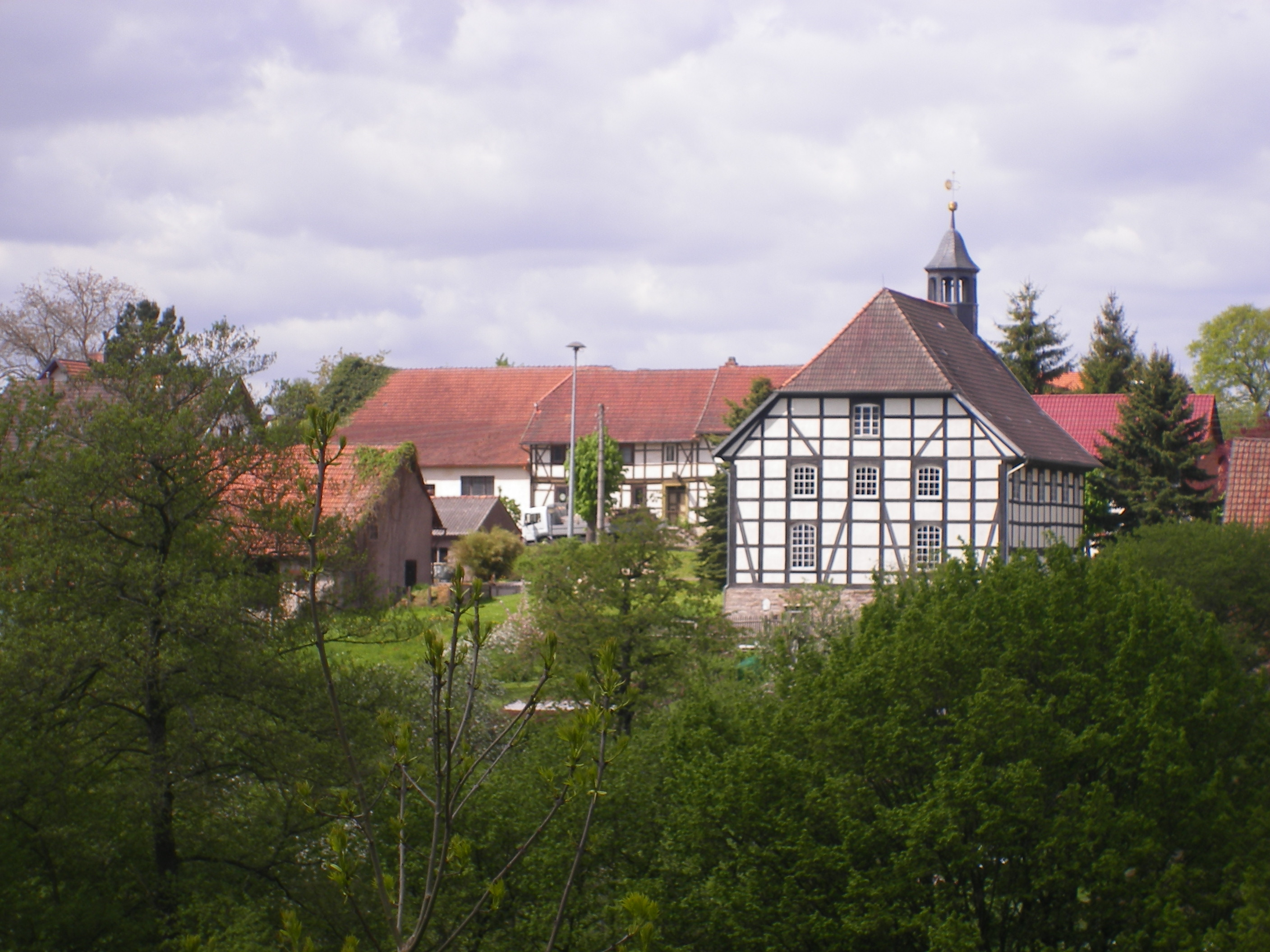 Church (evangelic) in Silkerode in south of the Harz mountains in district of Eichsfeld in Thuringia